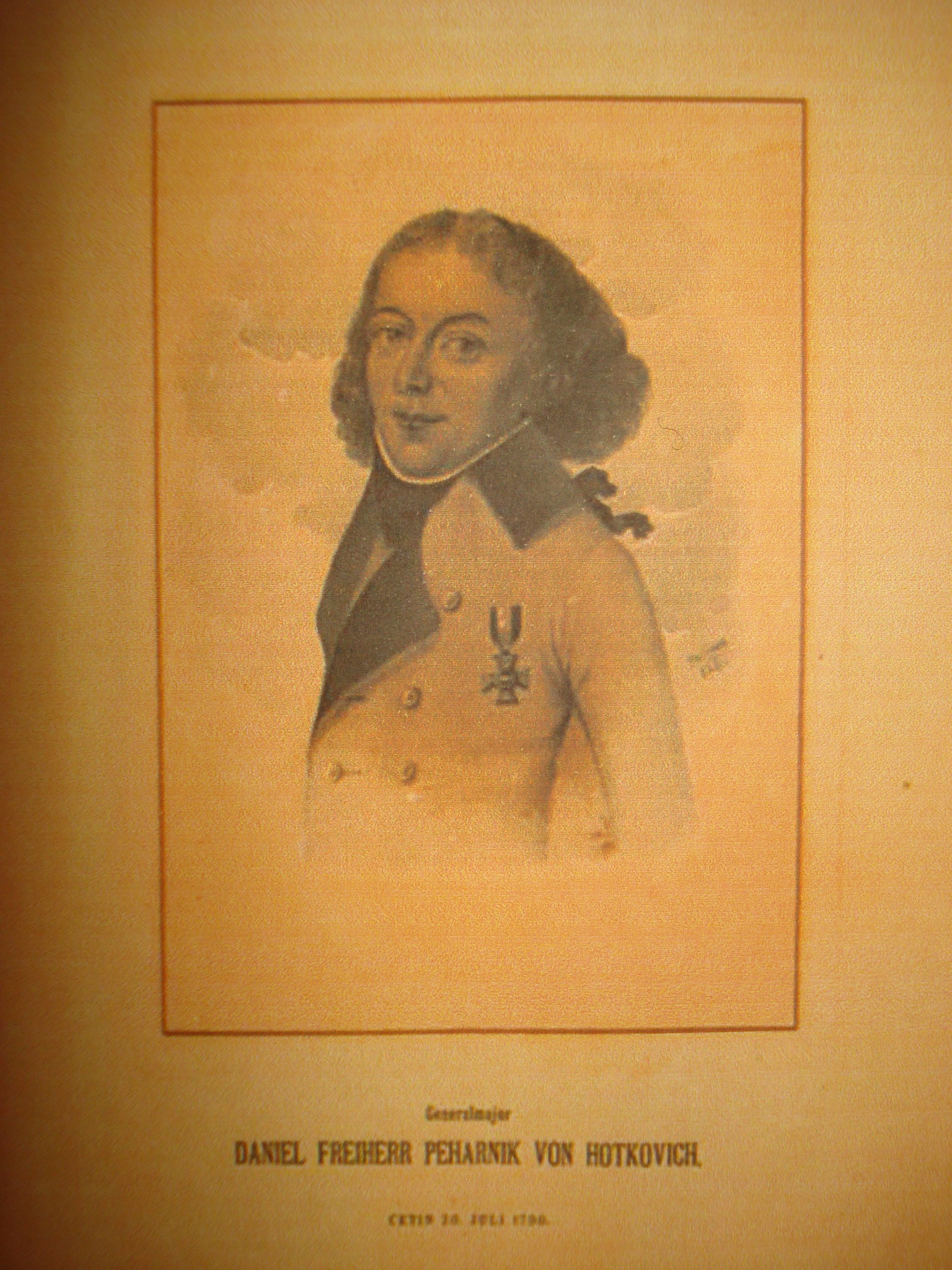 Baron Daniel Peharnik-Hotković (1745-1794), Croatian nobleman and general of the Habsburg Monarchy imperial armyHrvatski: Danijel barun Peharnik-Hotković (1745-1794), hrvatski plemić i general carske vojske Habsburške Monarhije